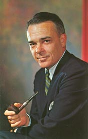 Oliver P. Bolton (1917-1972) was a politician from Ohio.